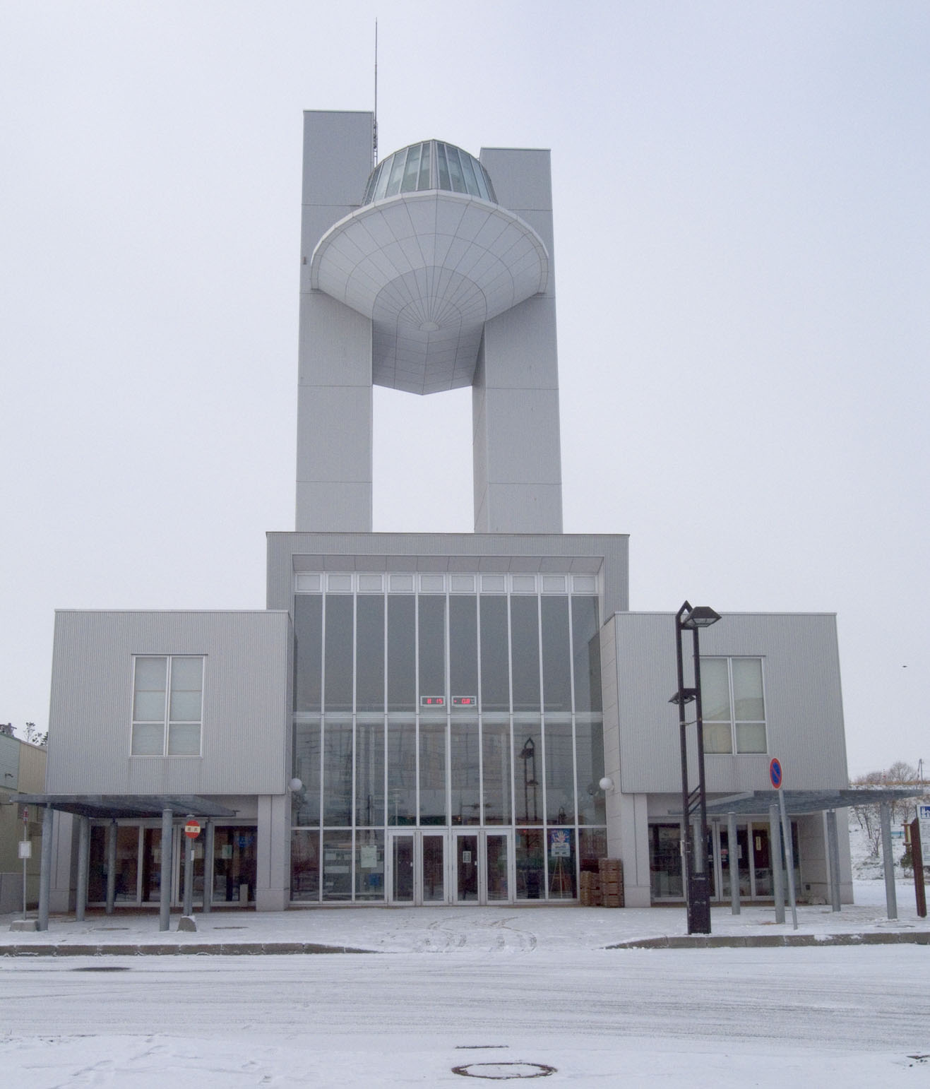 Roadside station Omu, Omu, Hokkaido, Japan